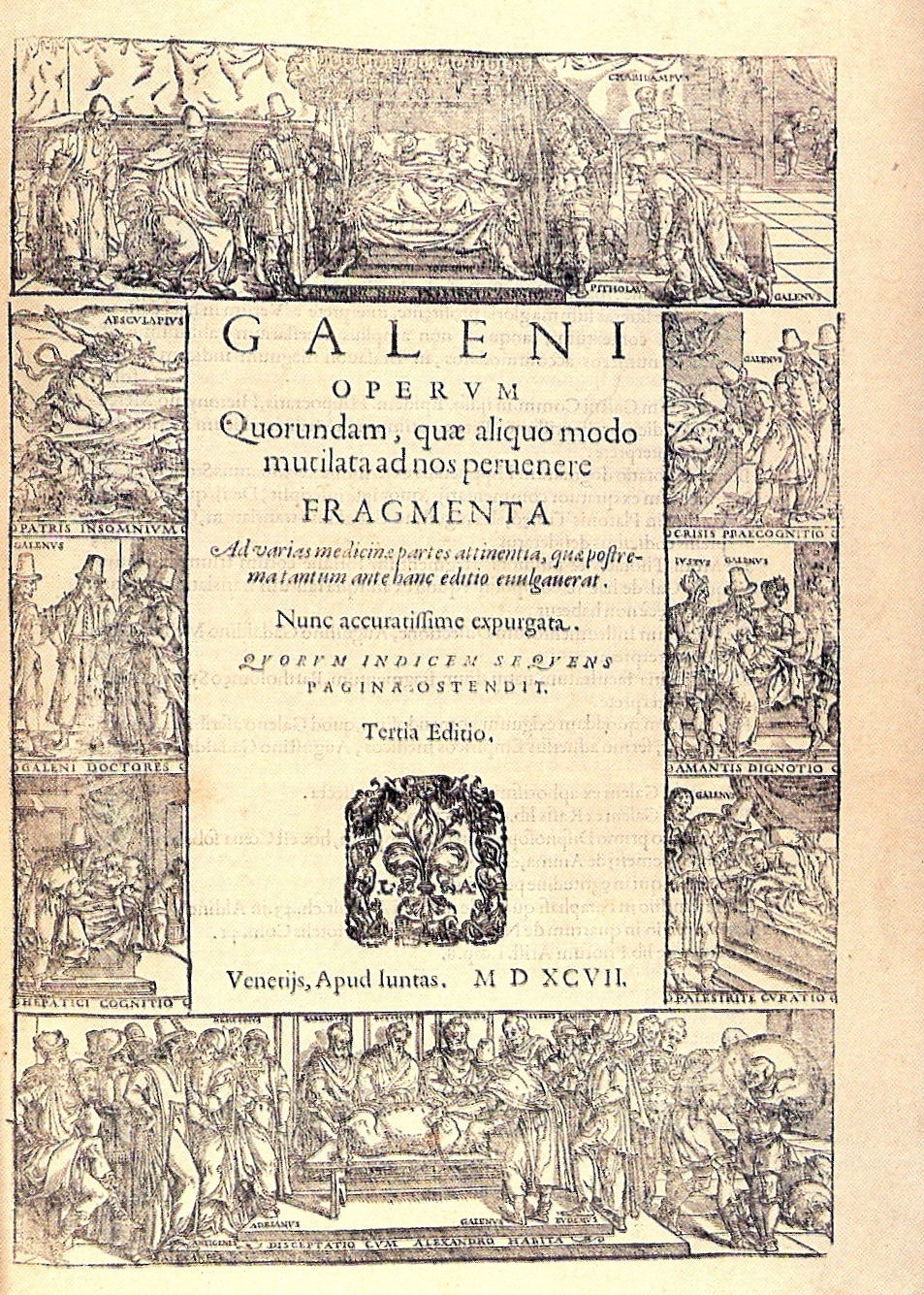 The front cover of the "Opera" by Galenus edited in Venice in 1597